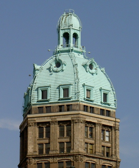 Detail of the "copper" dome (actually green paint) on the Sun Tower in Vancouver. Photographed by Zhatt on June 28, 2005